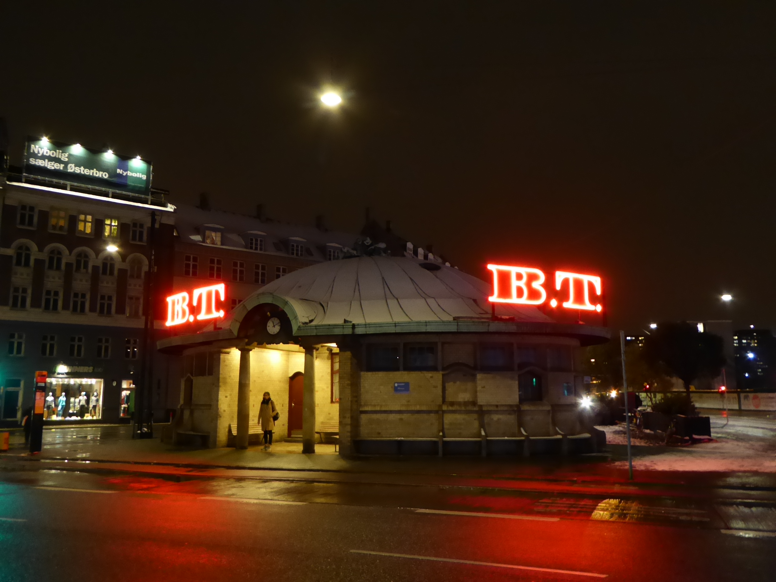 The building Bien at Trianglen in Østerbro in Copenhagen.